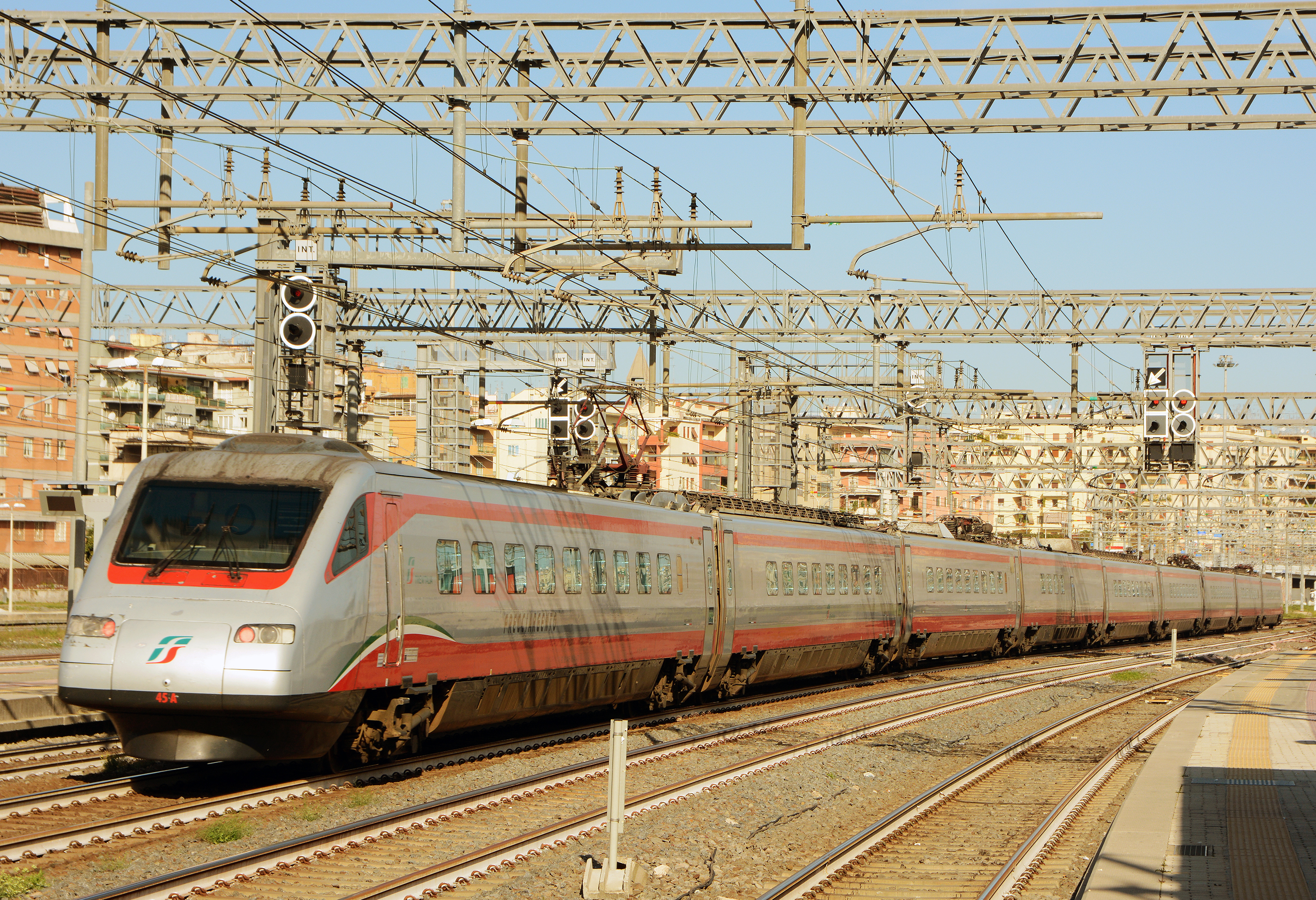 Fiat ETR 485